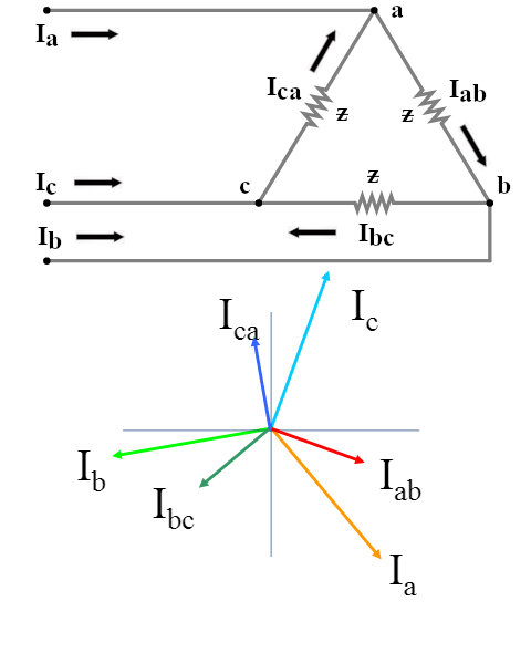 This diagram presents a delta configuration and a corresponding phasor diagram of its currents.